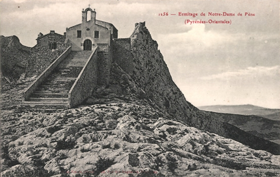 Ancient postcard (ca. 1905) of Notre Dame de Pène hermitage